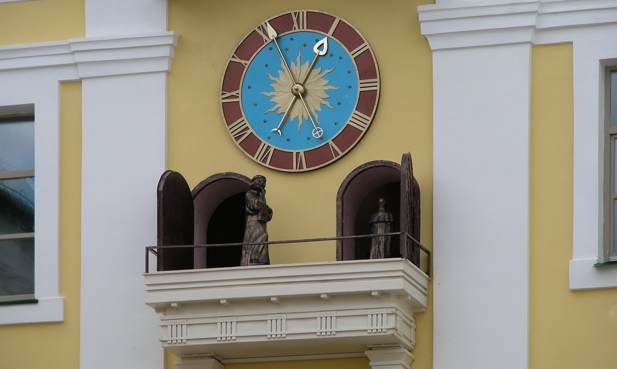 BELARUS / POLOTSK (Полацк). University. Clock.